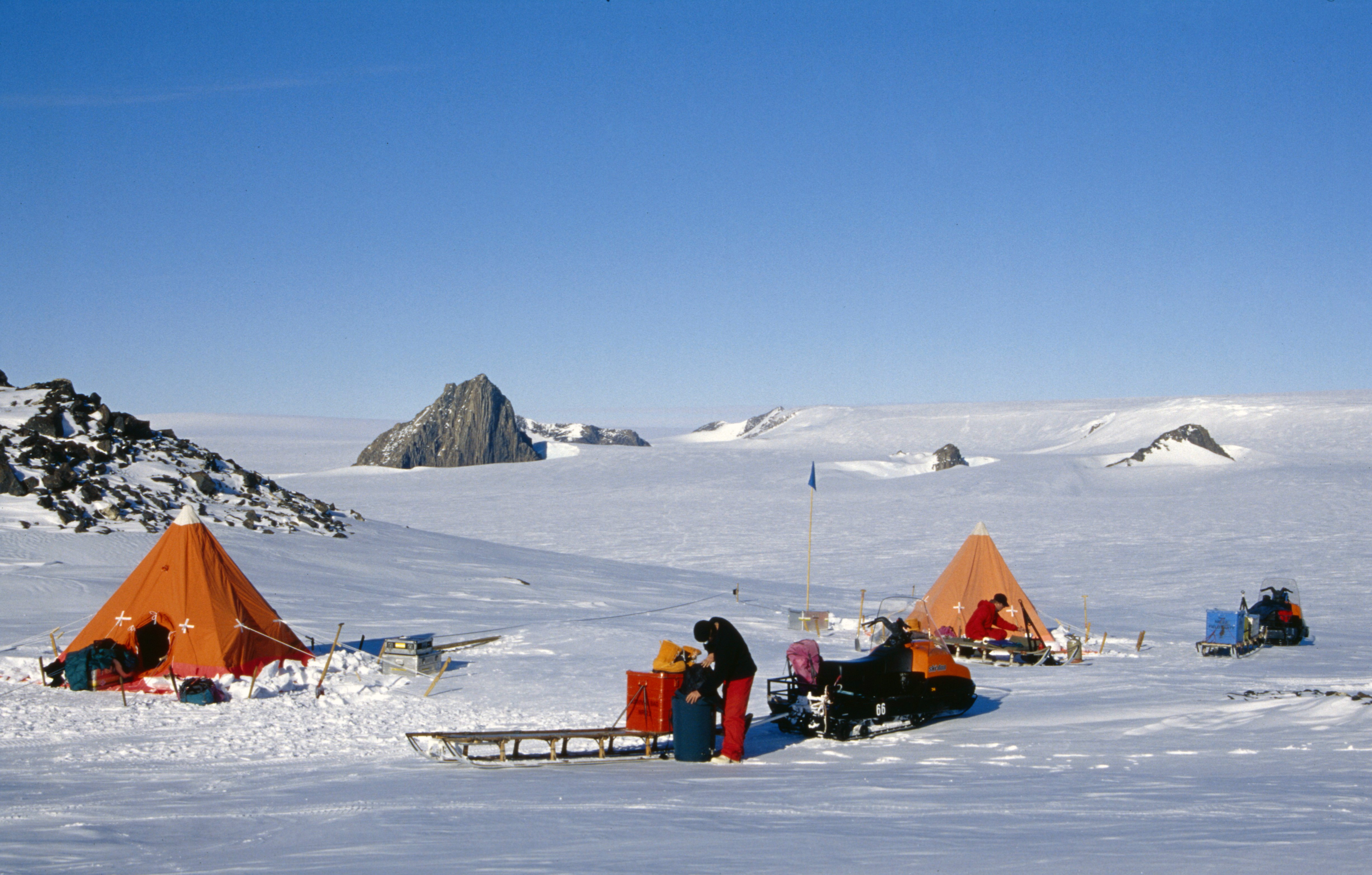 Field camp, northern XU-Fjella, Queen Maud Land, view in northern direction. In the middle ground nunataks of Rasmussenegga with the highest peak on the left at 1927 meters.